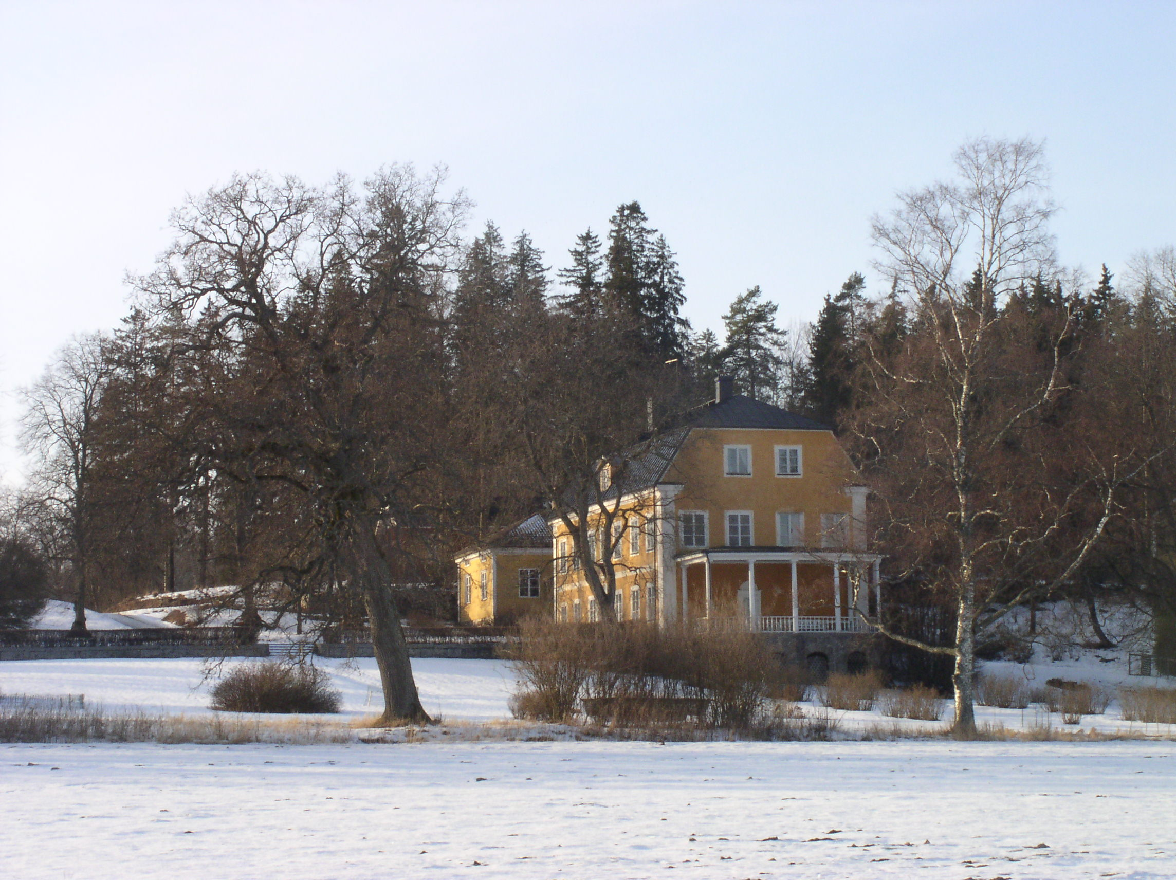 Viksberg manor in Paimio, Finland.